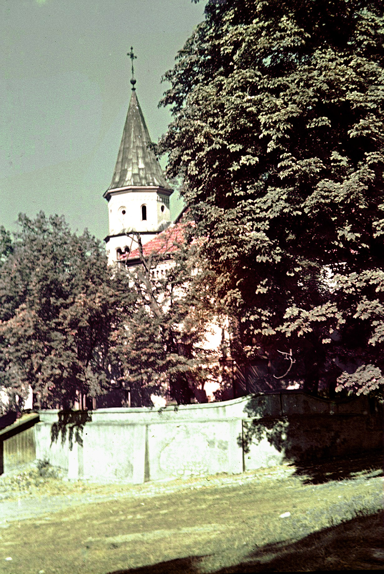 Kościół pod wezwaniem Narodzenia NMP w Bieżanowie w 1939. Ta fotografia Agfacolor nie została pokolorowana (jest to wynalazek z 1936). Julo, the heirs of this work's copyright holder (usually the creator) have released it into the public domain. This applies worldwide. In some countries this may not be legally possible; if so: The heirs of the creator grant anyone the right to use this work for any purpose, without any conditions, unless such conditions are required by law.